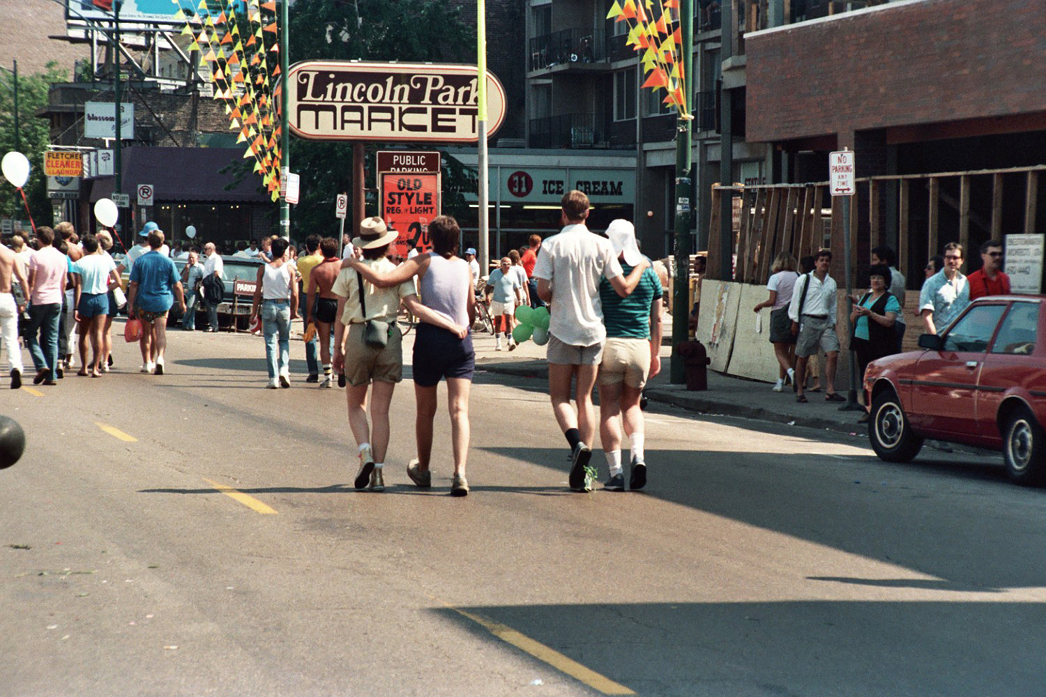 Chicago's 16th Annual Gay & Lesbian Pride Parade, June 1985